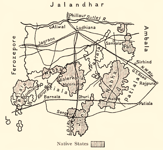 Map of Ludhiana District in 1911, showing several princely states, viz. Nabha, Patiala, Jind, Malerkotla